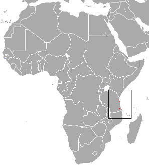 Rondo Bushbaby (Paragalago rondoensis) range